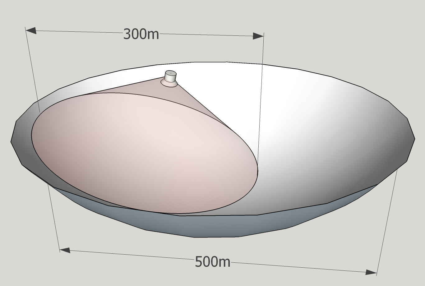 Five hundred meter Aperture Spherical Telescope (Fast) Illuminated aperture